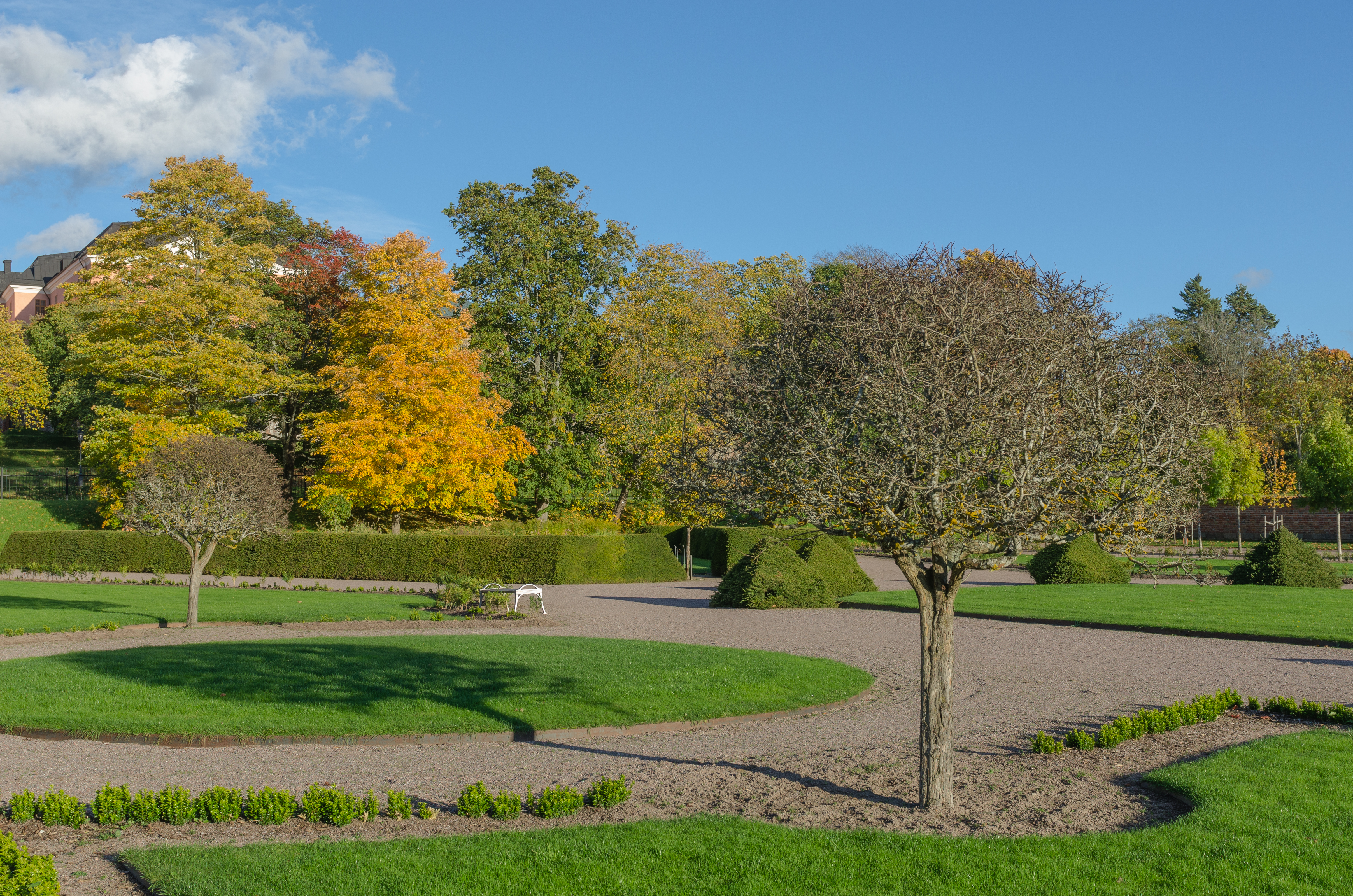 Uppsala Botanical Garden, October 2012.